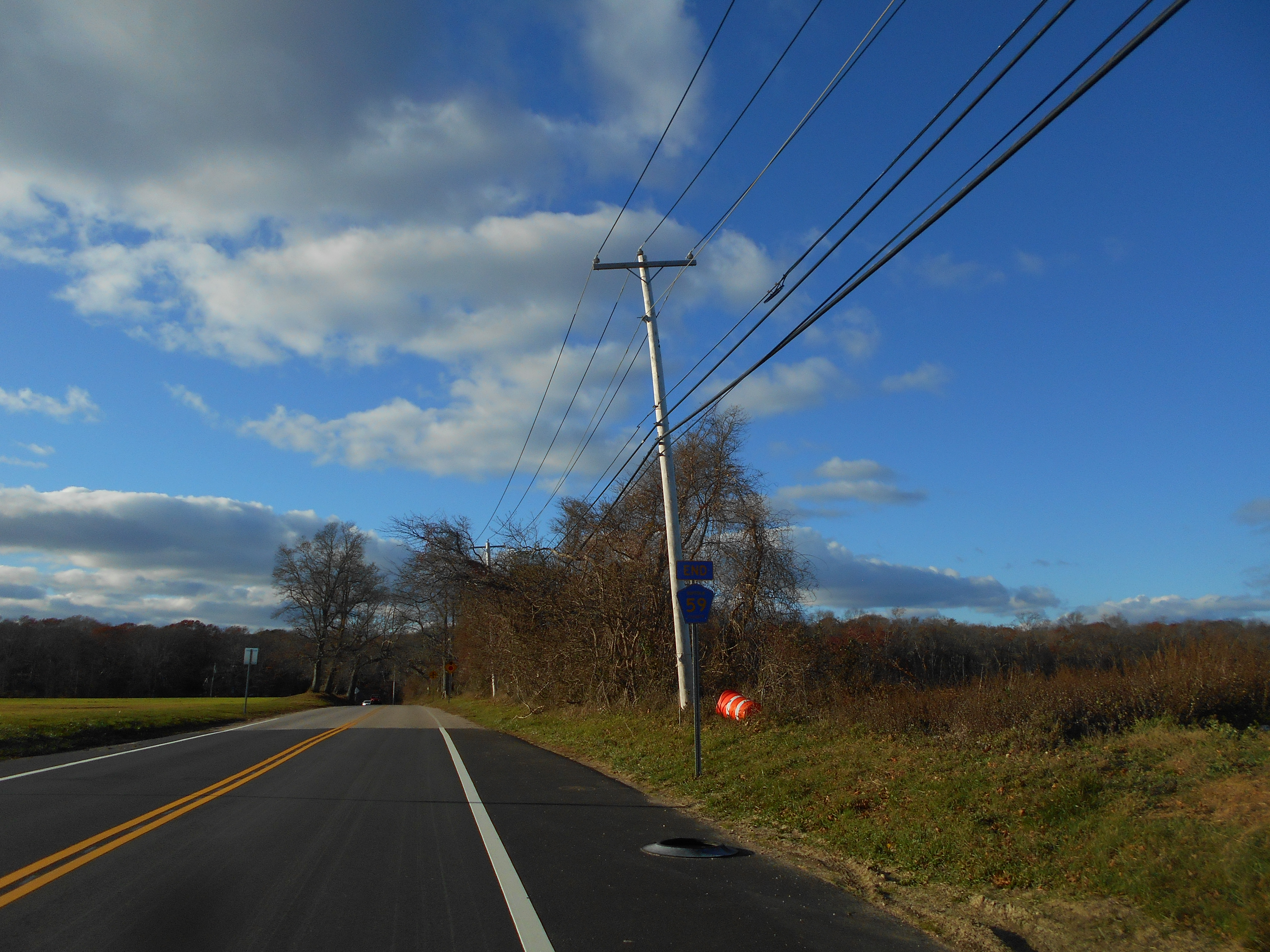 County Route 59's northern terminus in East Hampton, New York.